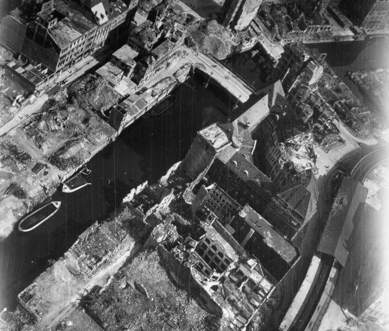 Hamburg, from right to left: subway station "Rödingsmarkt", Officebuilding of the "Oberfinanzdirektion", Bridge "Heiligengeistbrücke" crossing the river Alster